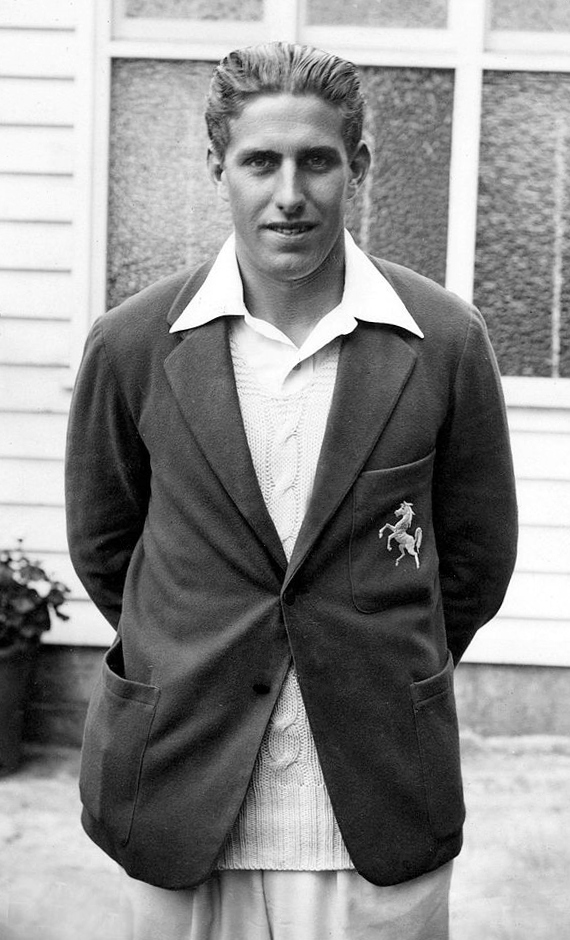 Sport, Cricket, pic: 1930's, Arthur Fagg, (1915-1977) who played for Kent C,C,C, 1932-1957 and England 5 times 1936-1939